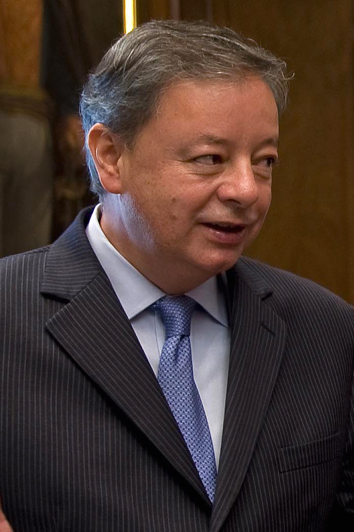 Colombian Defense Minister Gabriel Silva, U.S. Defense Secretary Robert M. Gates,center right, and U.S. Ambassador to Colombia William R. Brownfield talk to one another at the Presidential Palace before meeting with President Alvaro Uribe in Bogota.